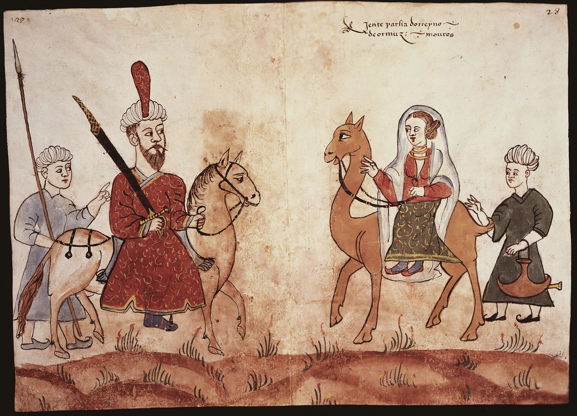 An anonymous 16th century Portuguese illustration present in the Códice Casanatense, now stored in the Biblioteca Casanatense in Rome, depicting people of Persian origin from the Kingdom of Hormuz. It's inscription reads:"Persian people of the kingdom of Hormuz; moors (Muslims)"